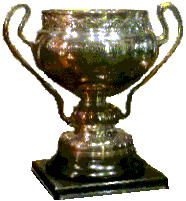 Calder Cup